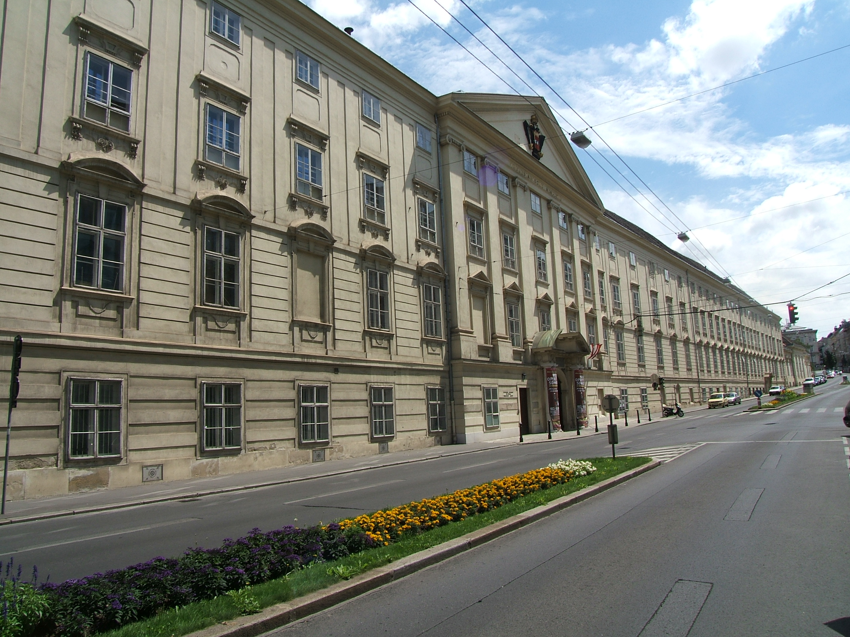 Palais Theresianum in Vienna 4th district Favoritenstraße 15